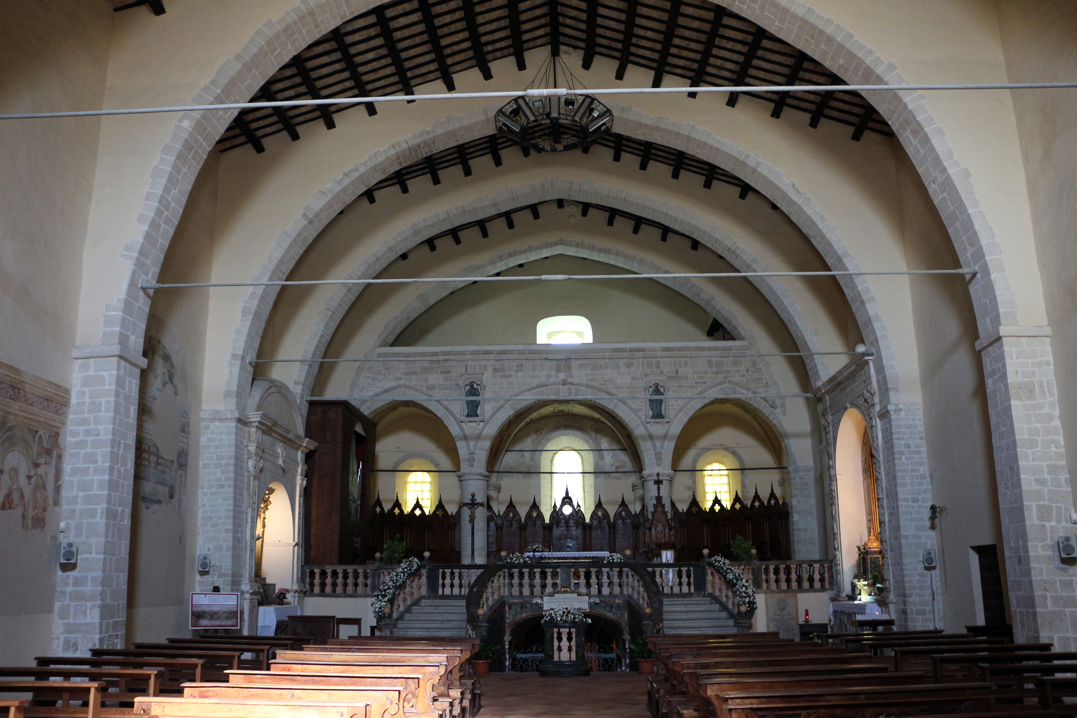 Sant'Esuperanzio (Cingoli)